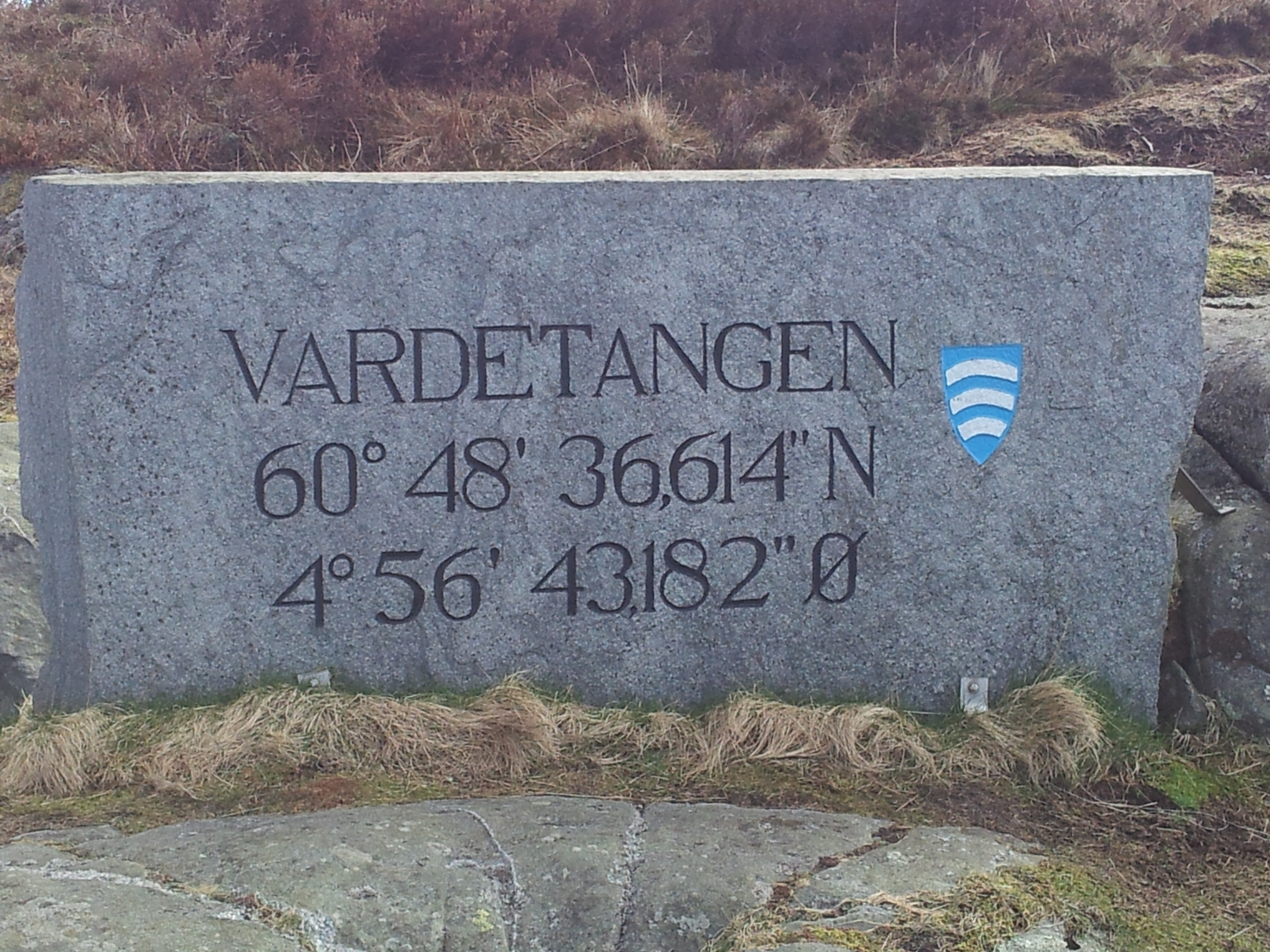 The monument at Vardetangen, Norway's westernmost point on the mainland.